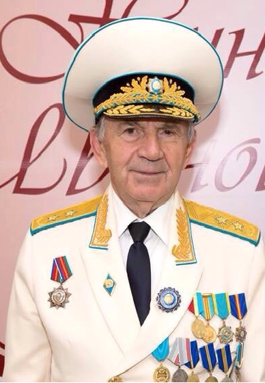 Shutkin STepan Шуткин Степан Иванович